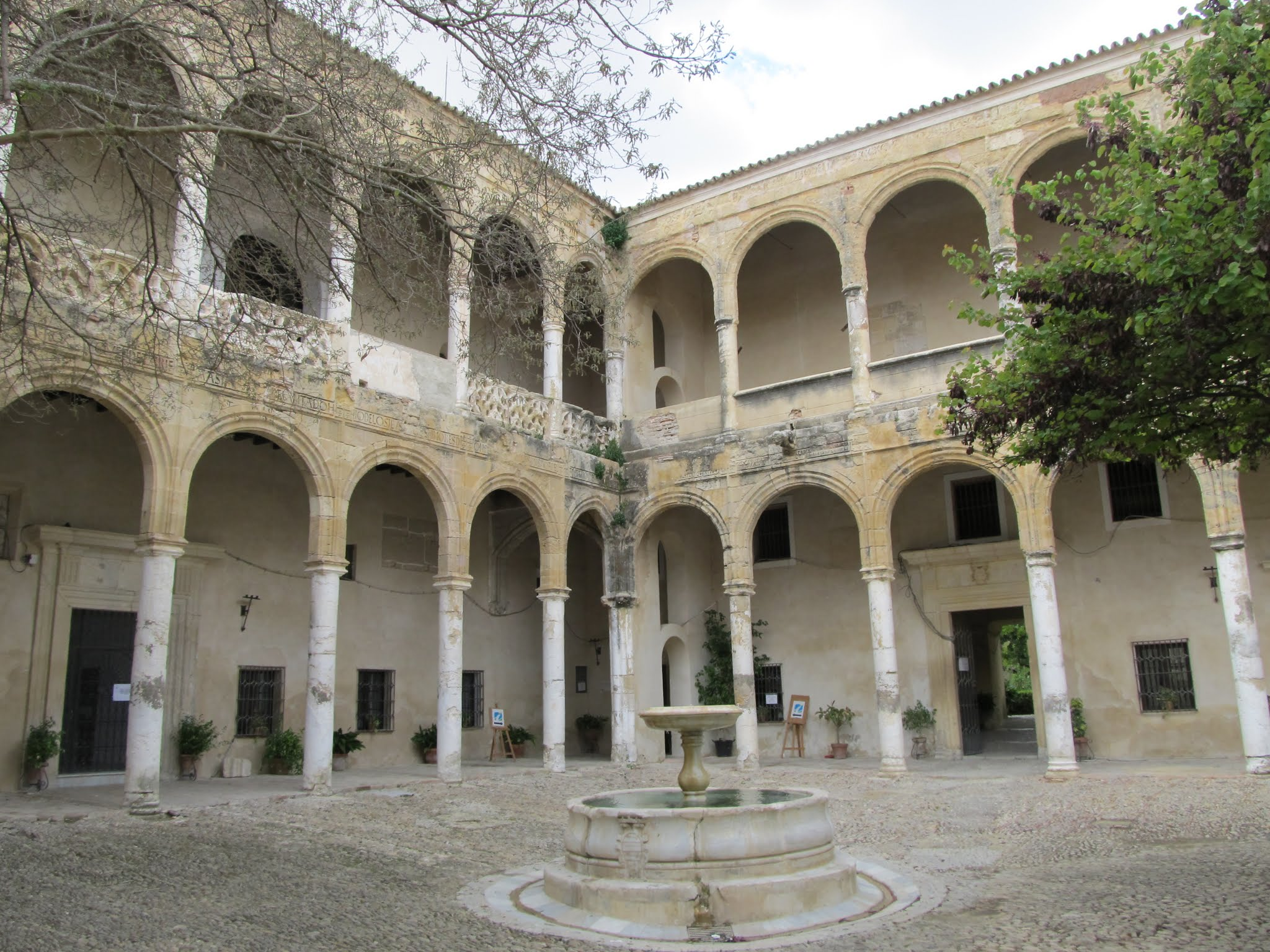 Bornos , Andalucia, Spain